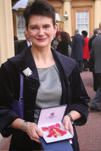 Diane Coyle with OBE award on 27 February 2009.